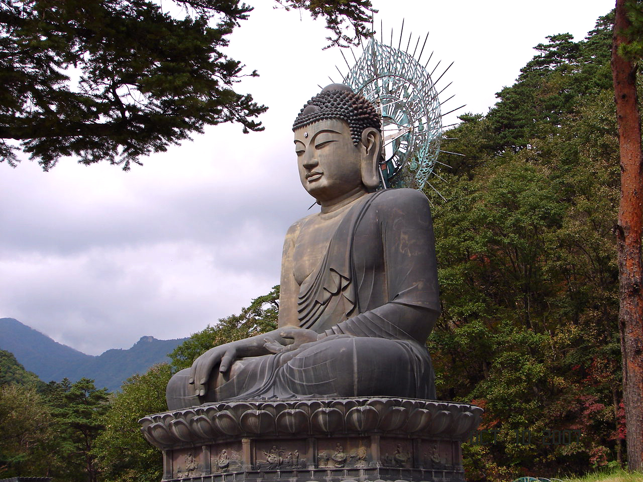 Bronze Buddha at Sinheungsa